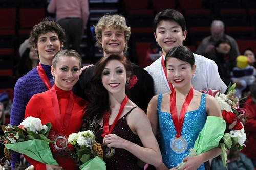 Vanessa Crone / Paul Poirier (2), Meryl Davis / Charlie White (1), Maia Shibutani / Alex Shibutani (3) at the 2010 Skate America